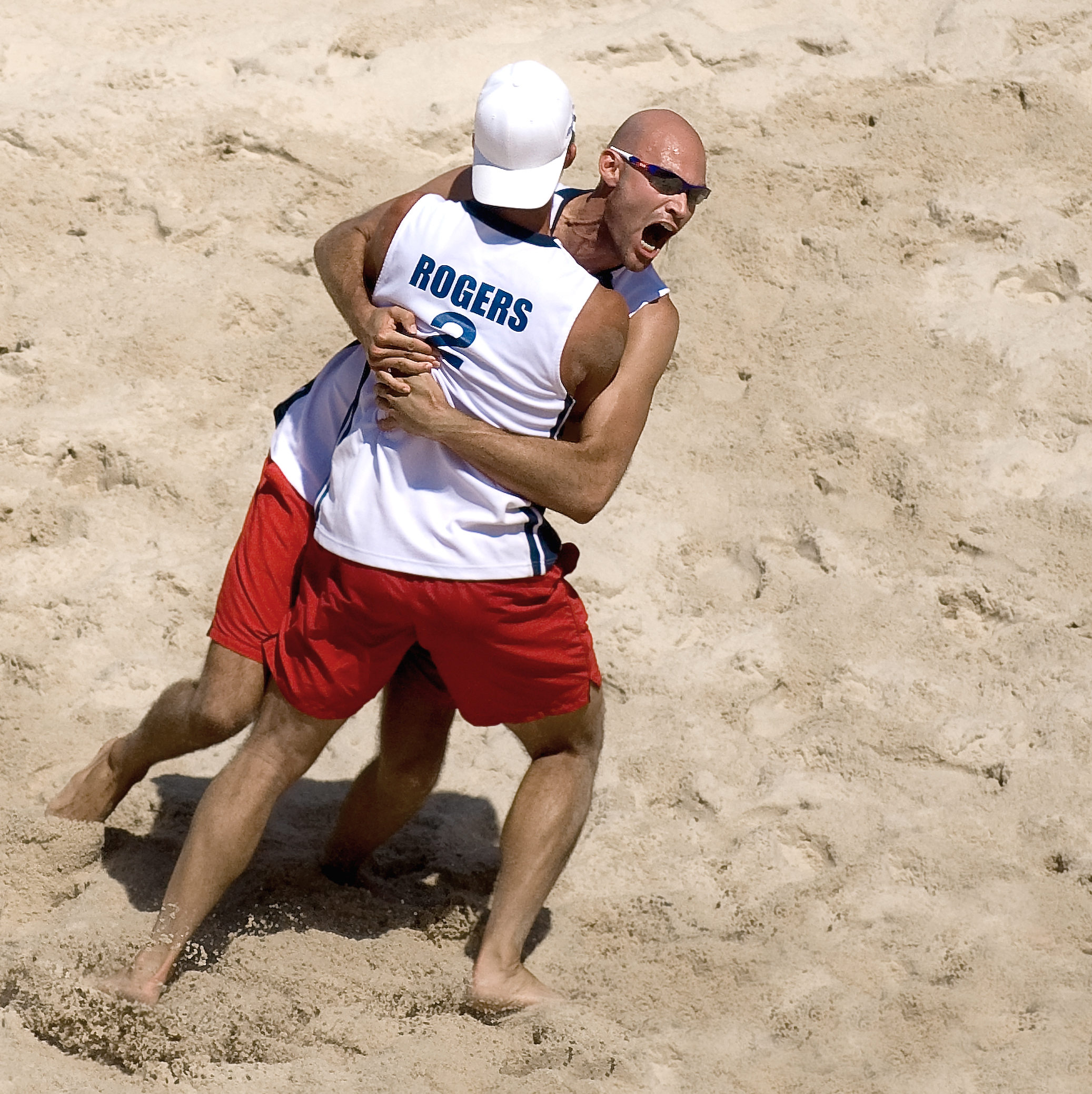 Phil Dalhausser of Team USA hugs team mate Todd Rogers after the final point in their gold medal beach volleyball match against Brazil at the Beijing Olympics (Chaoyang Park Stadium).